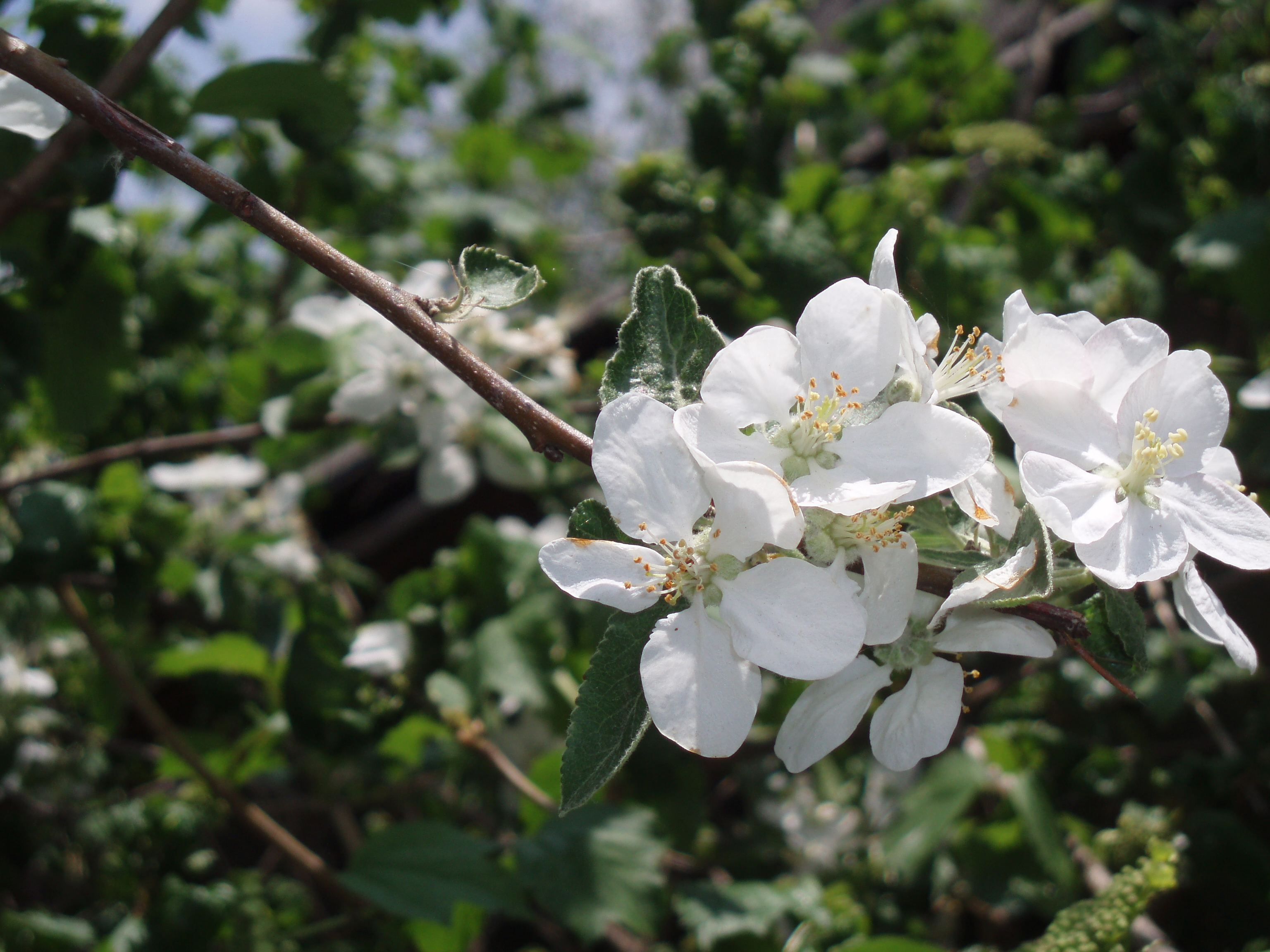 Blooming apple tree in spring